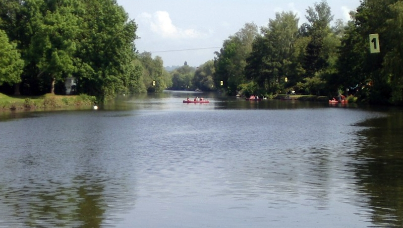 Watersport on the German river Lahn near Gießen.